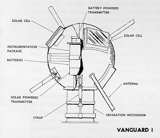 Sketch of the successful Vanguard I satellite